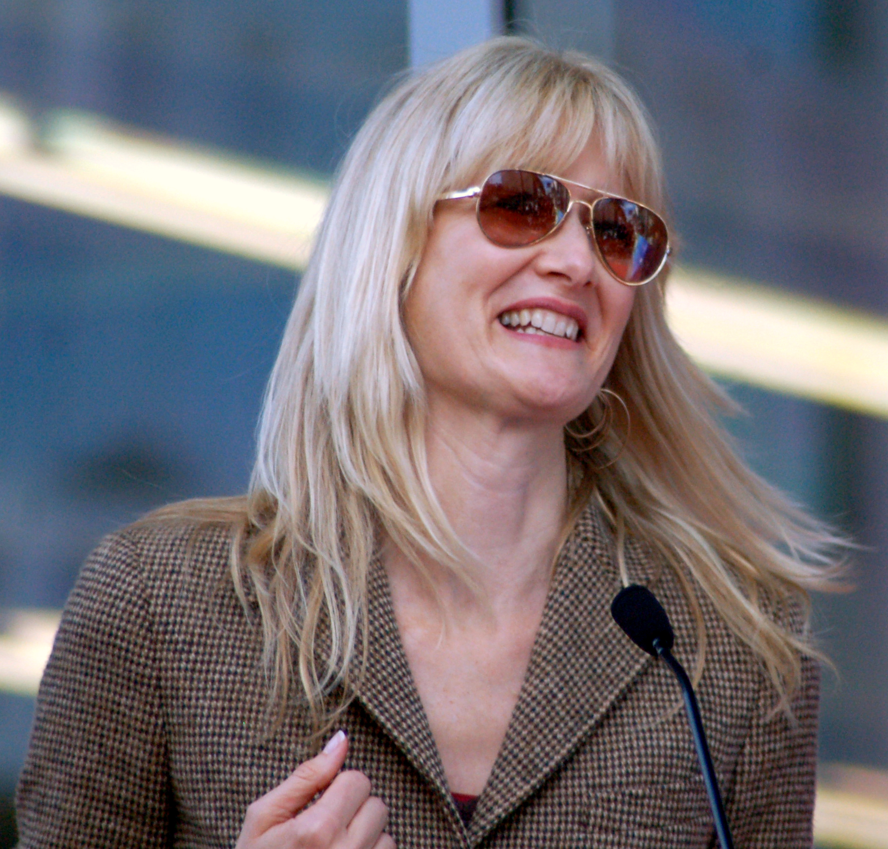 Laura Dern at a ceremony for Mary Steenburgen to receive a star on the Hollywood Walk of Fame.